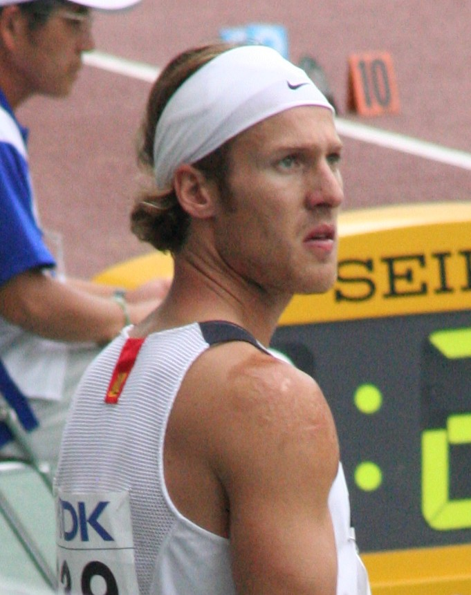 World Athletics Championships 2007 in Osaka - German Decathlete Andre Niklaus during the long jump part of the decathlon